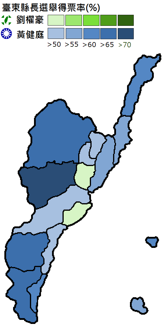 Taitung magistrate election 2009